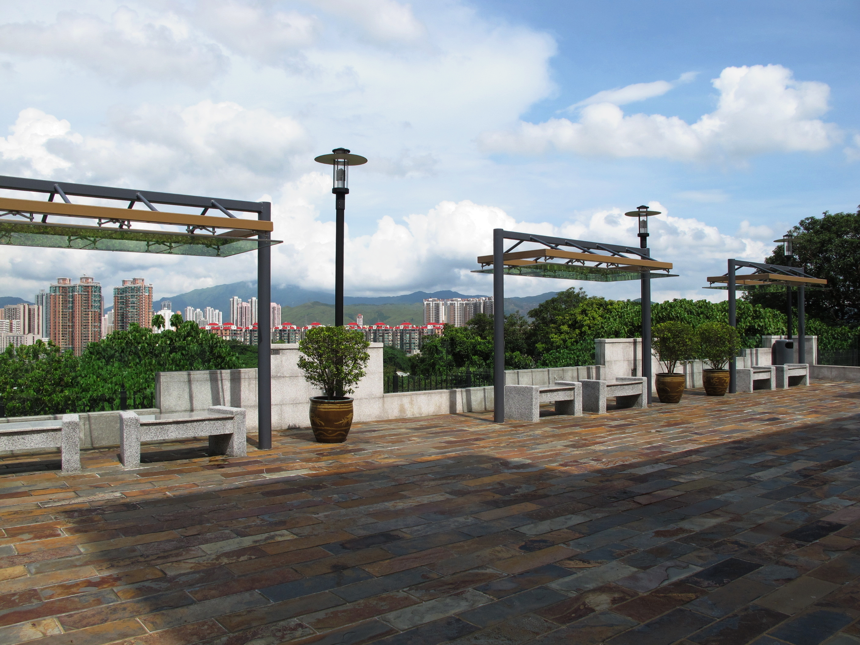 Ping Shan Tang Clan Gallery Open Space 屏山鄧族文物館